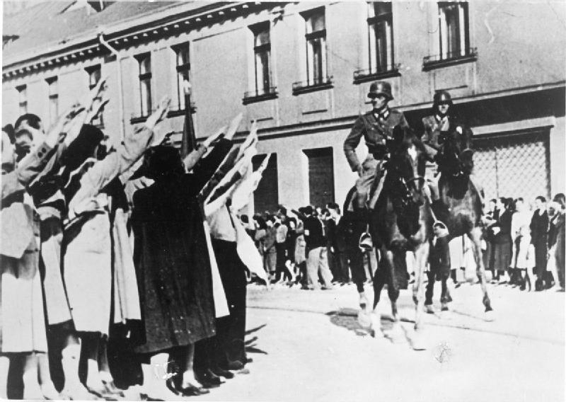 German cavalry enters the Polish city of Łódź (Litzmannstadt) greeted by members of the city considerable ethnic German community.